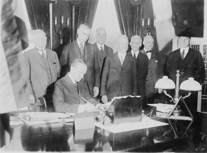 Calvin Coolidge signs the Revenue Act of 1924. Secretary of the Treasury Andrew Mellon is the third figure from the right, and Director of the Budget, General Herbert Mayhew Lord, is to Mellon's left.